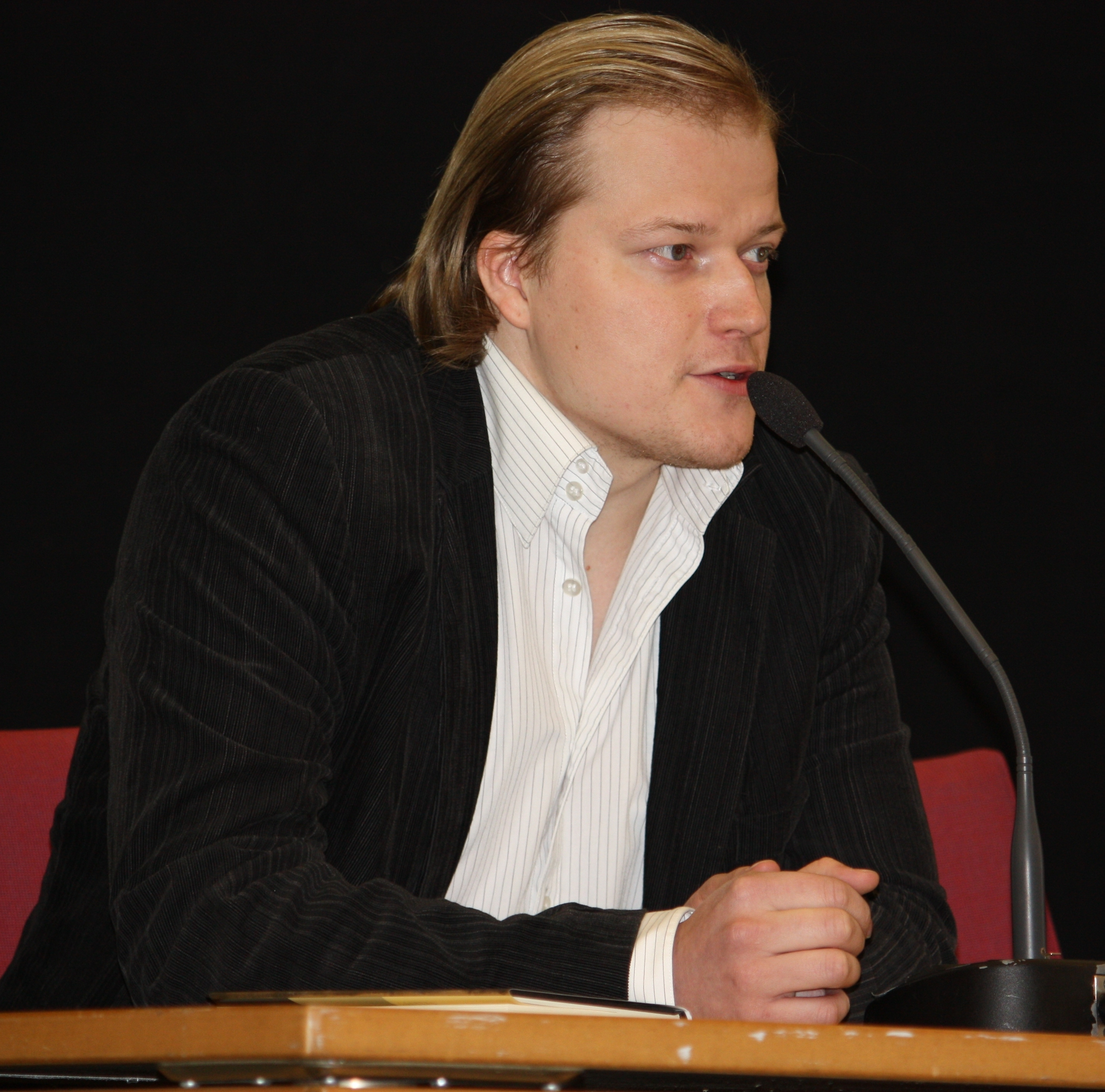 Finnish writer Juhani Brander at Turku Book Fair 2010